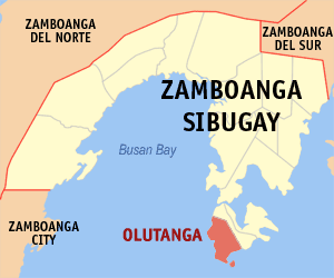 Map of the Zamboanga Sibugay showing the location of Olutanga